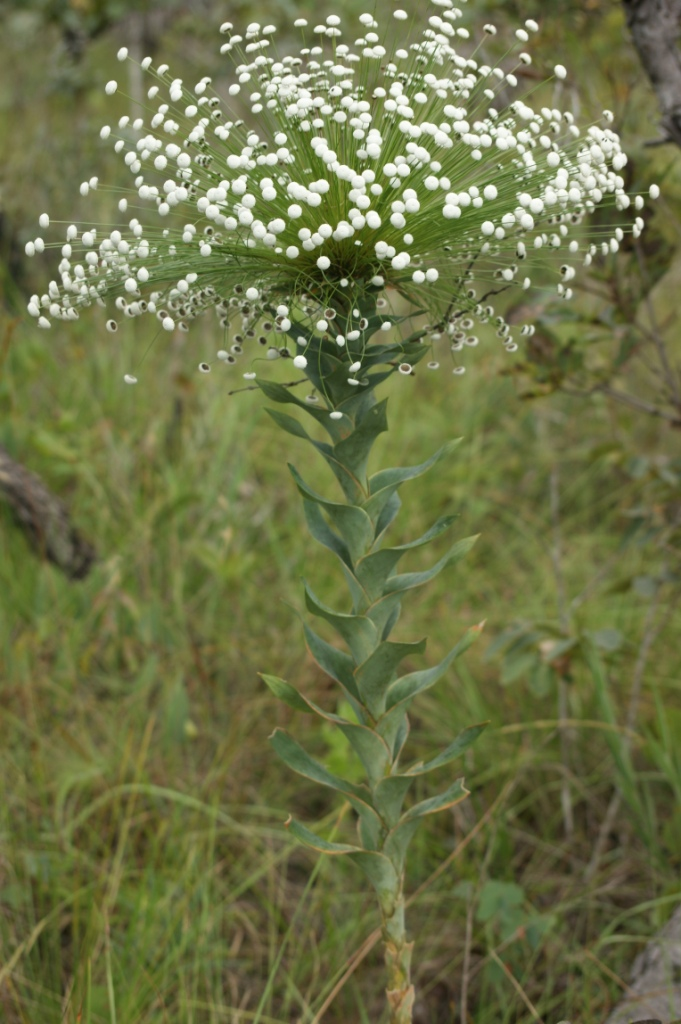 Paepalanthus giganteus - ERIOCAULACEAE Parque Nacional da Chapada dos Veadeiros - Alto Paraíso de Goiás - Goiás - Brasil. Kew Gardens 'World Checklist' link : Paepalanthus giganteus Sano (2004) (Syn. Paepalanthus chiquitensis Herzog (1924)) Considered a synonym Kew Gardens 'World Checklist' link : Paepalanthus chiquitensis Herzog (1924) The Plant List link: Paepalanthus giganteus Sano (Syn. Paepalanthus chiquitensis Herzog) Considered a synonym (Source: KewGarden WCSP) The Plant List link: Paepalanthus chiquitensis Herzog (Source: KewGarden WCSP) Tropicos link: Paepalanthus giganteus (Bong.) Sano (Syn. Paepalanthus chiquitensis Herzog) (+ sub-taxa)